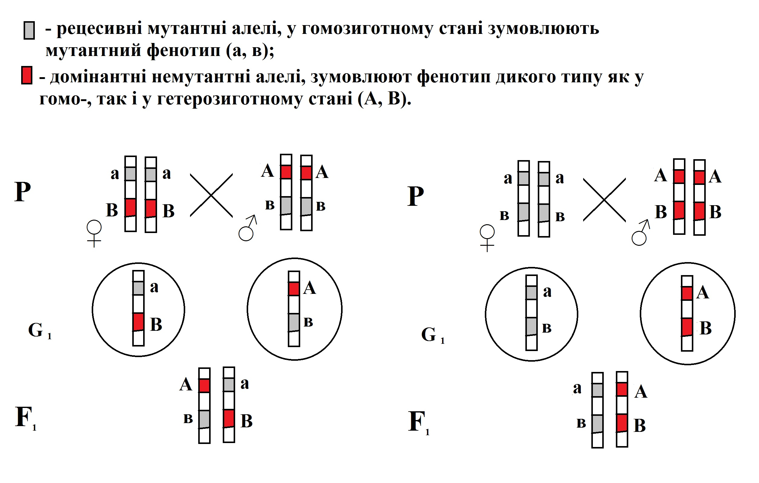 Complementation